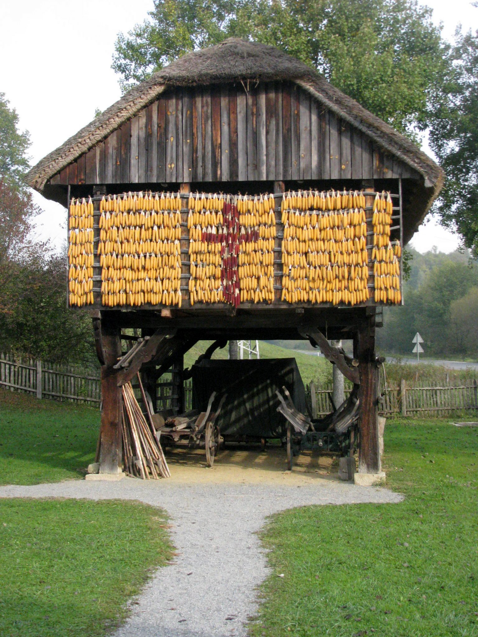 Open air museum, Rogatec, Slovenia